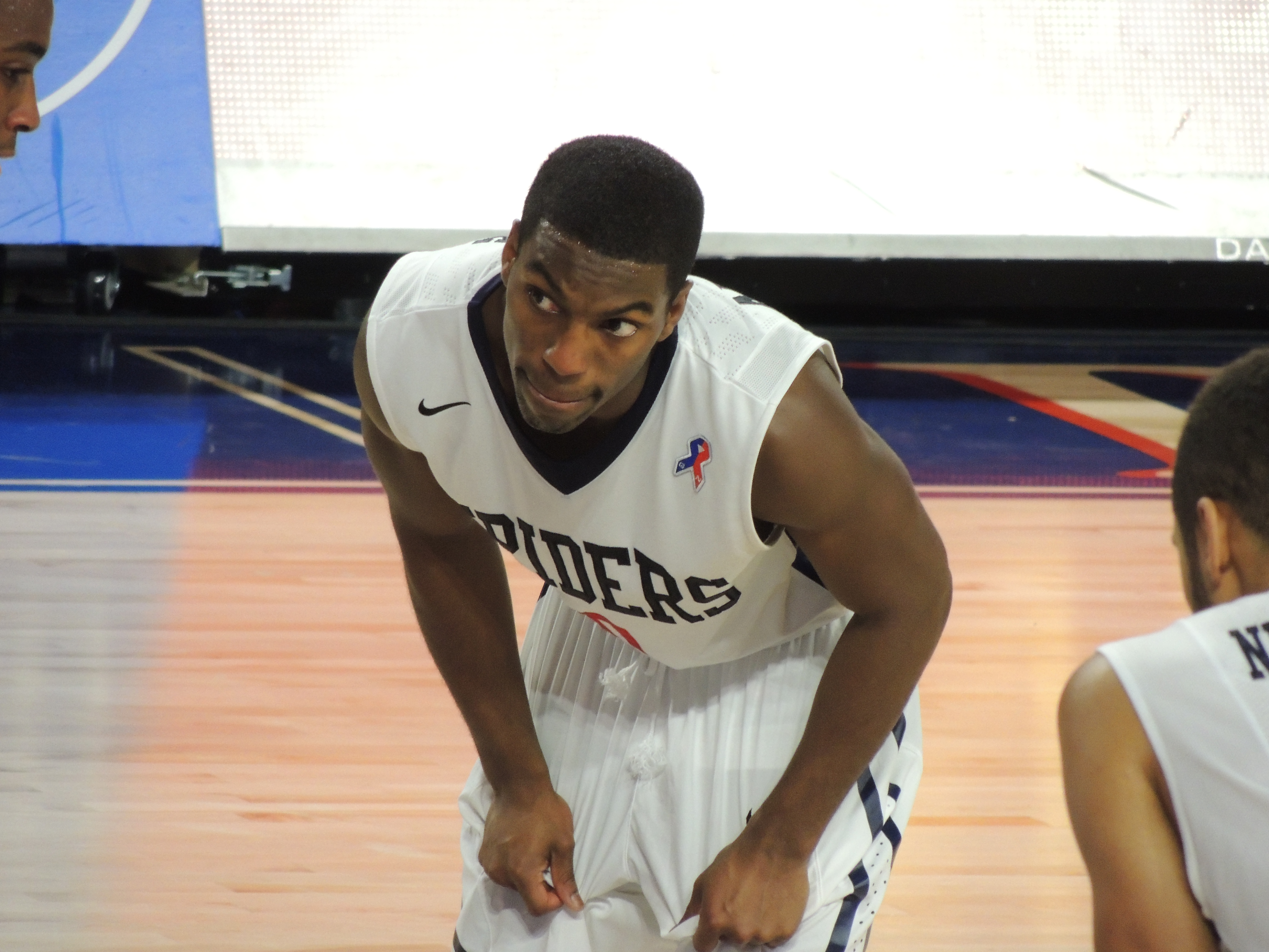 University of Richmond basketball player Kendall Anthony